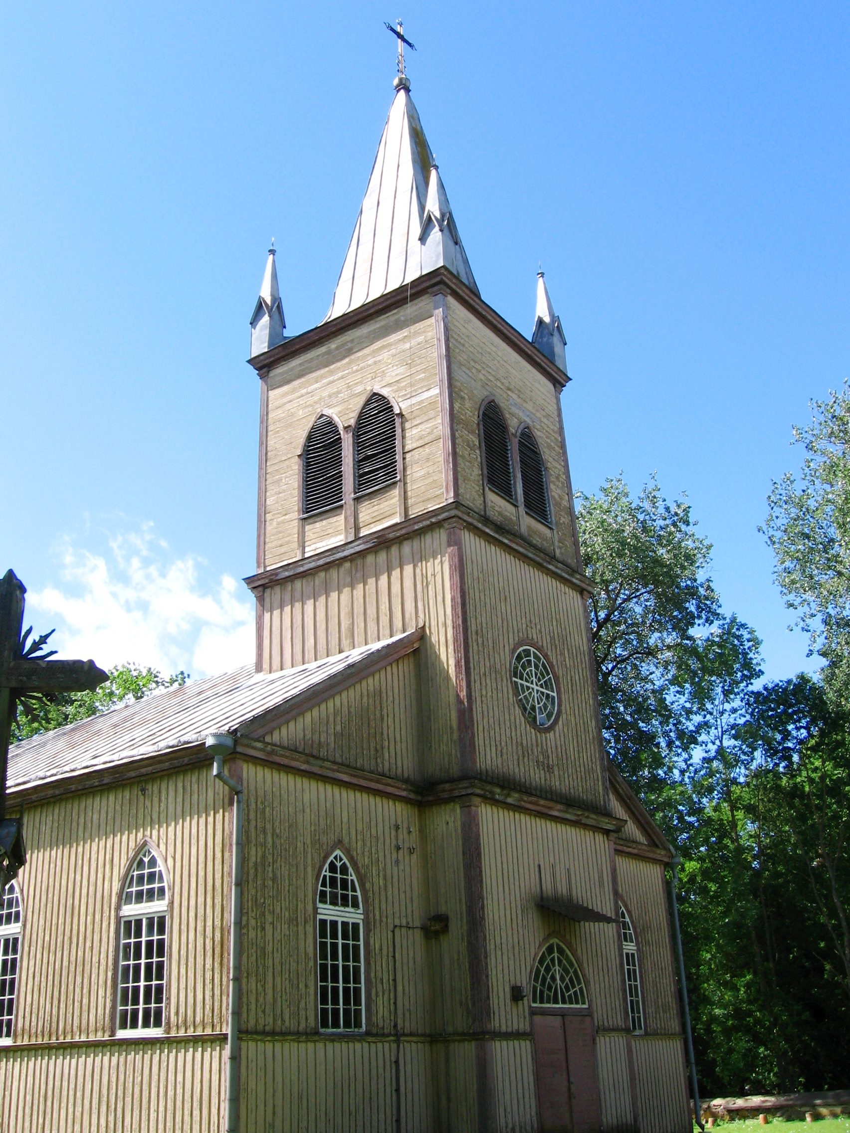 Salos Roman Catholic church, Rokiskis district, Lithuania Salų Šv. Kryžiaus bažnyčia, Rokiškio r.